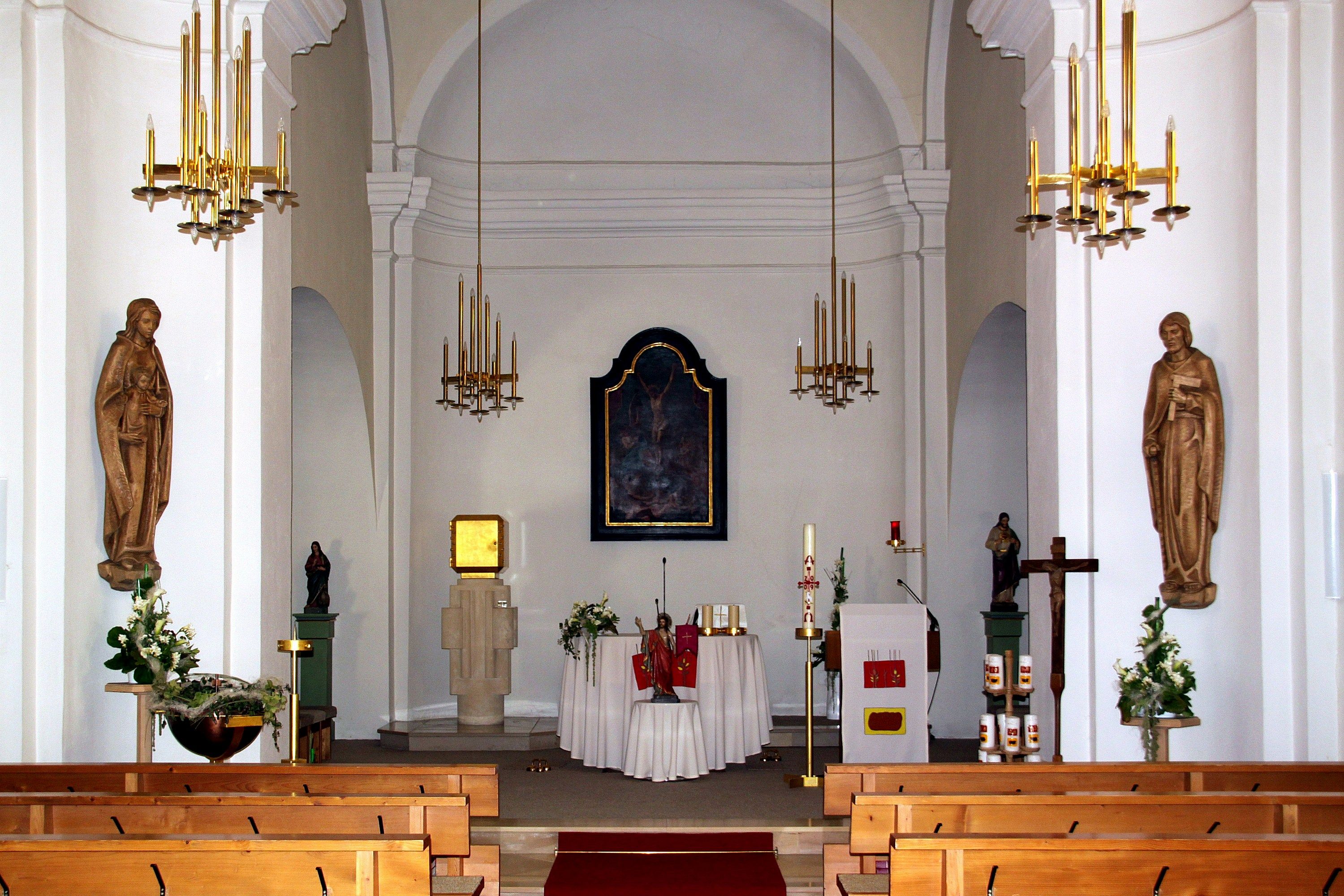 Parish church „Zur Kreuzerhöhung“ - Sieggraben Object location47° 39′ 01.18″ N, 16° 22′ 46.32″ E